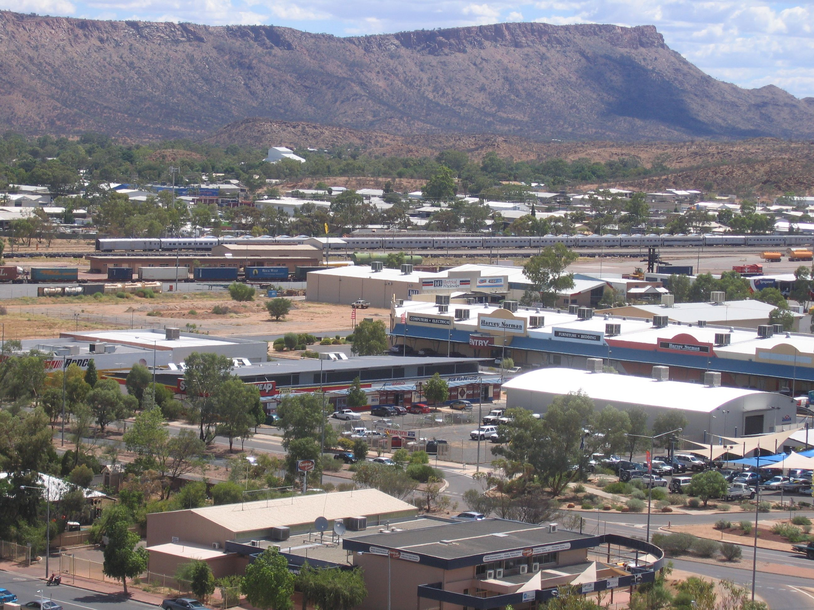 Overview Alice Springs with Railwaystation and "The Ghan"